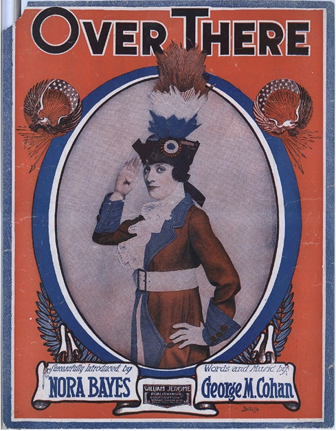 Cover of sheet music "Over There", 1917, with photo of singer Nora Bayes.